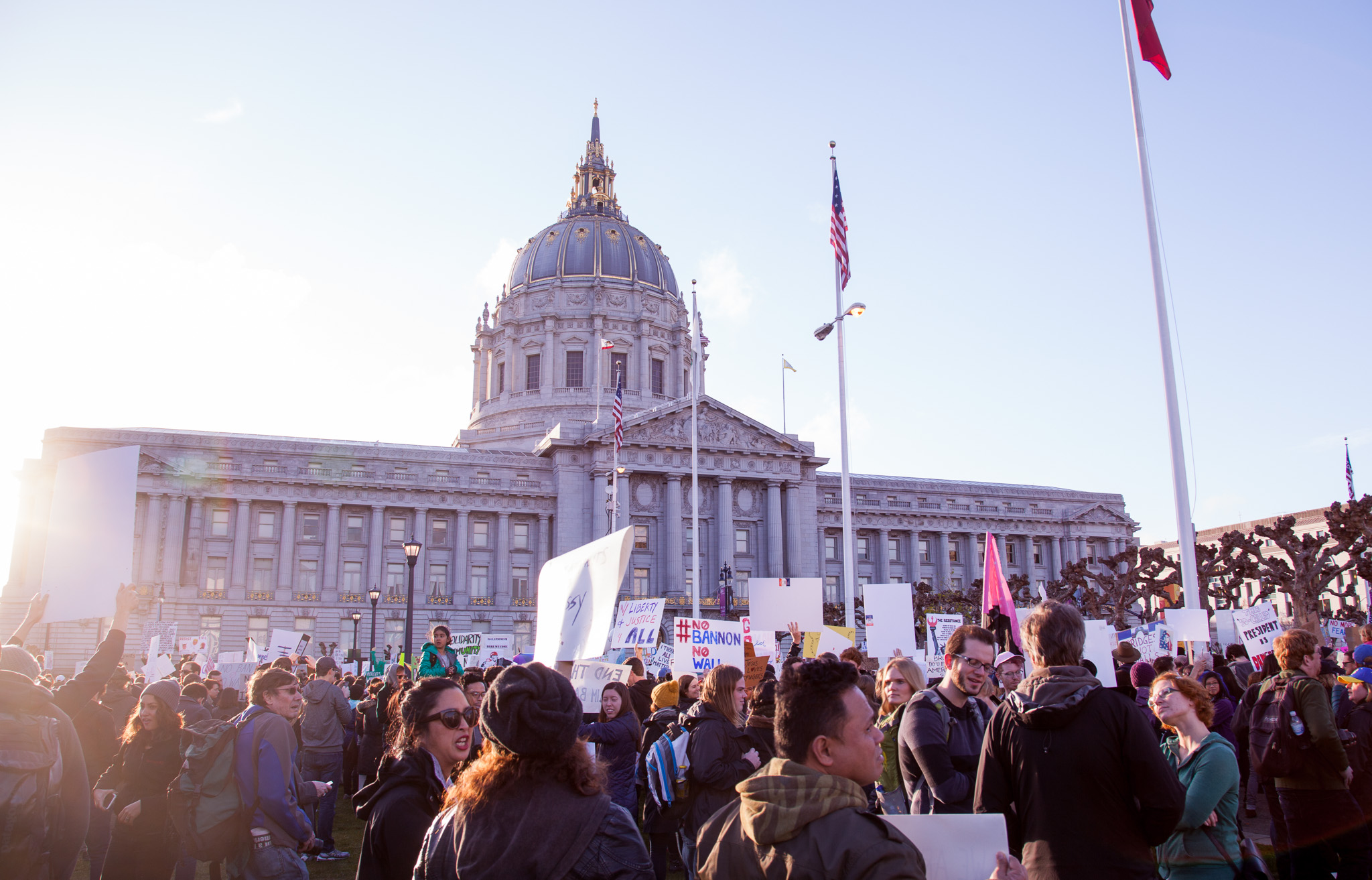 San Francisco City Hall at NoBanNoWallSF Rally - Feb 4, 2017